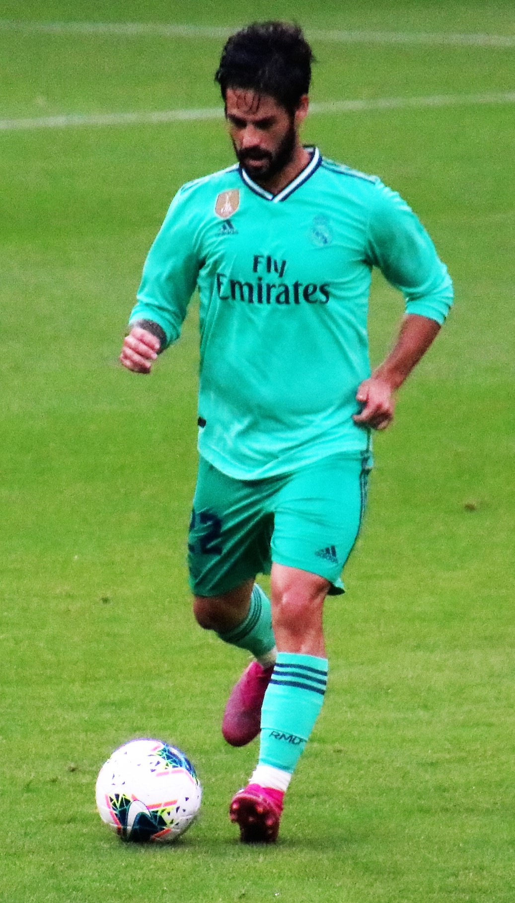 preseason match FC Salzburg